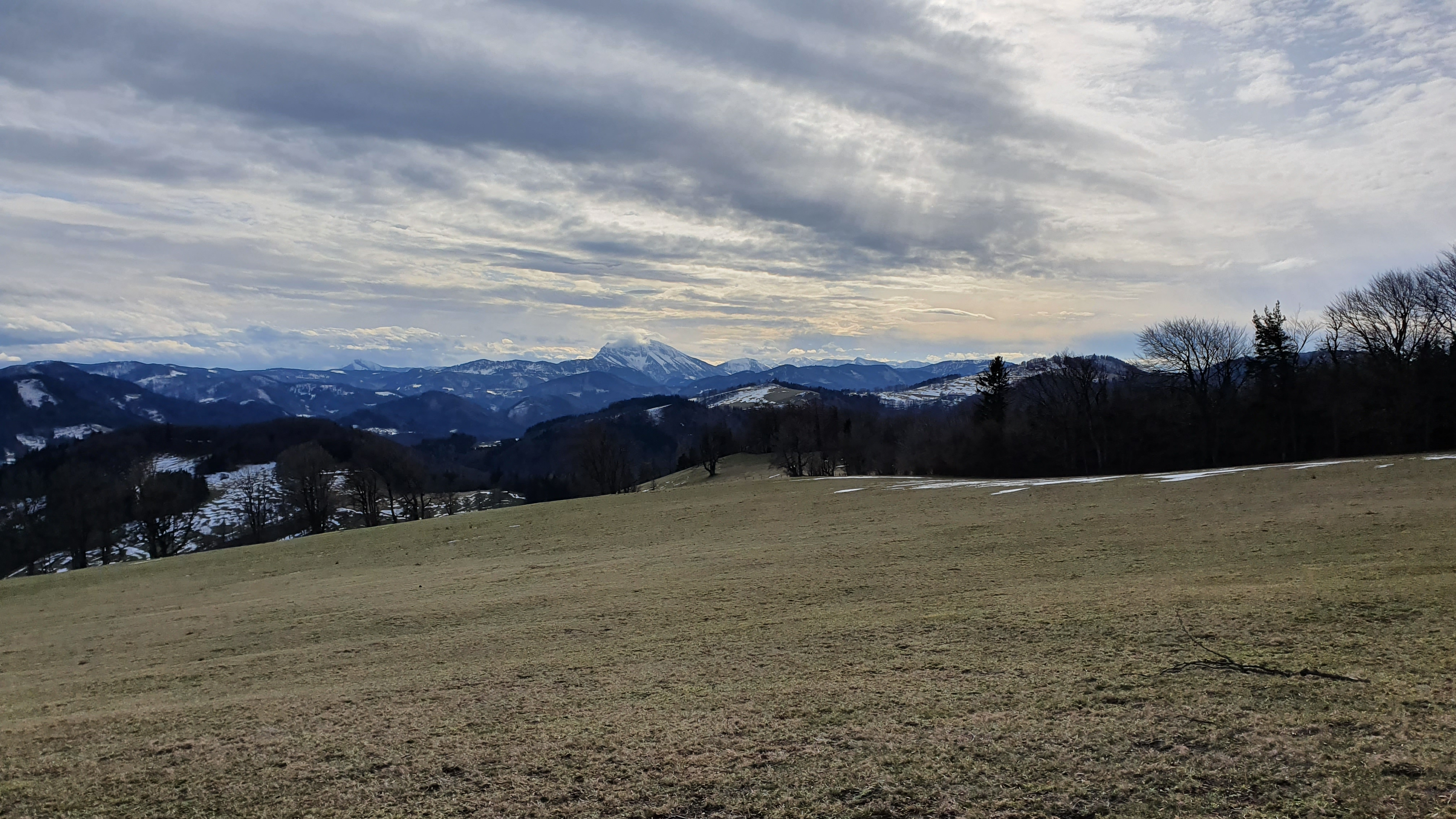 View from Bichlberg to south west, Kirchberg an der Pielach, Austria